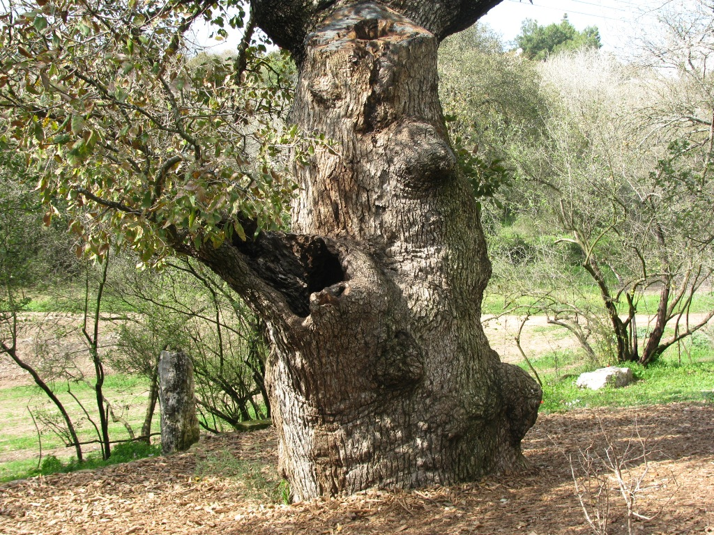 Old oak tree